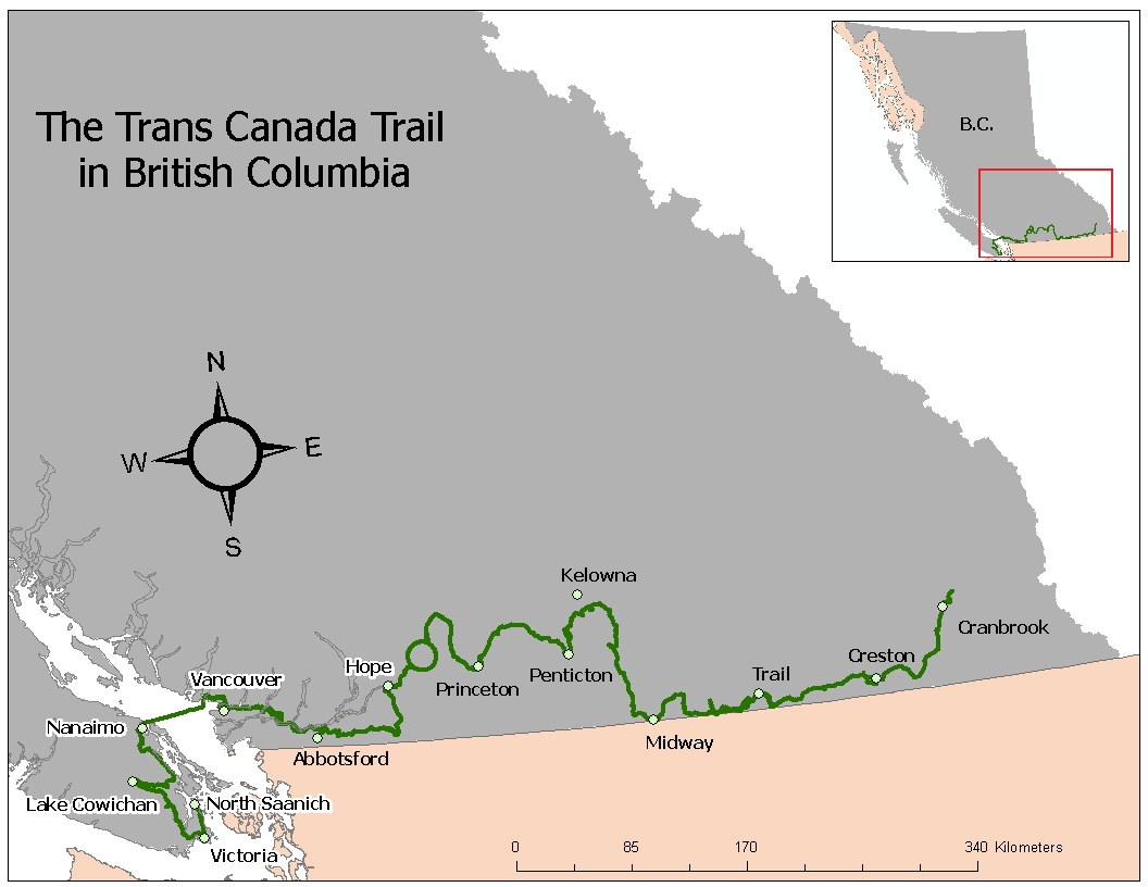 This map of the province British Columbia shows the Trans Canada Trail, starting in North Saanich.